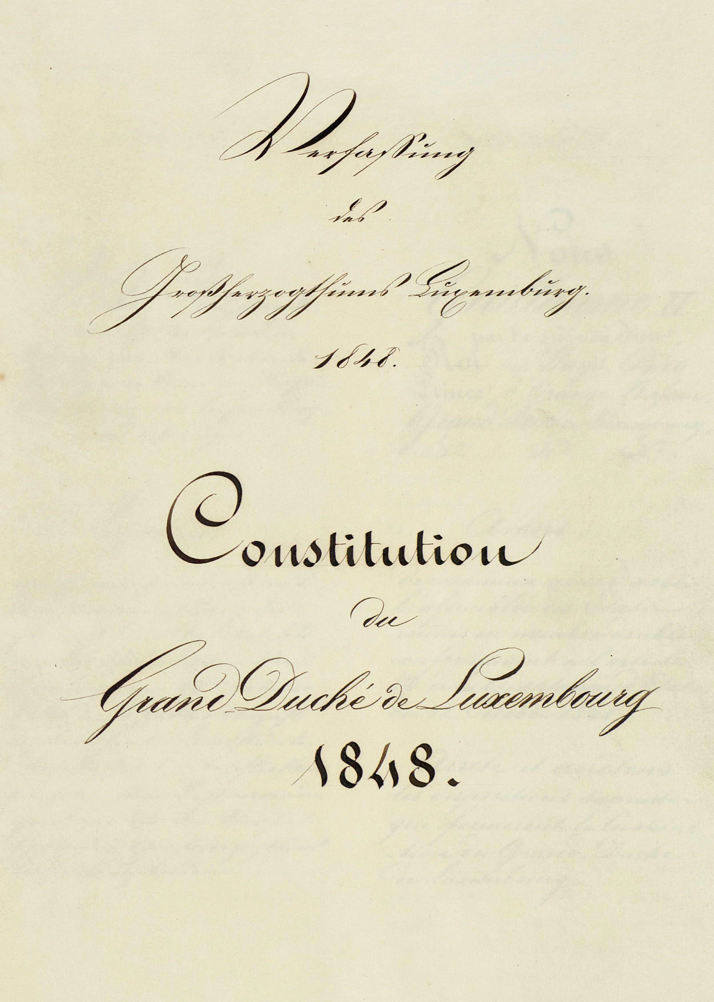 Cover page of the Constitution of the Grand Duchy of Luxembourg, 1848. The text in german reads: "Verfassung des Grossherzogthums Luxemburg".